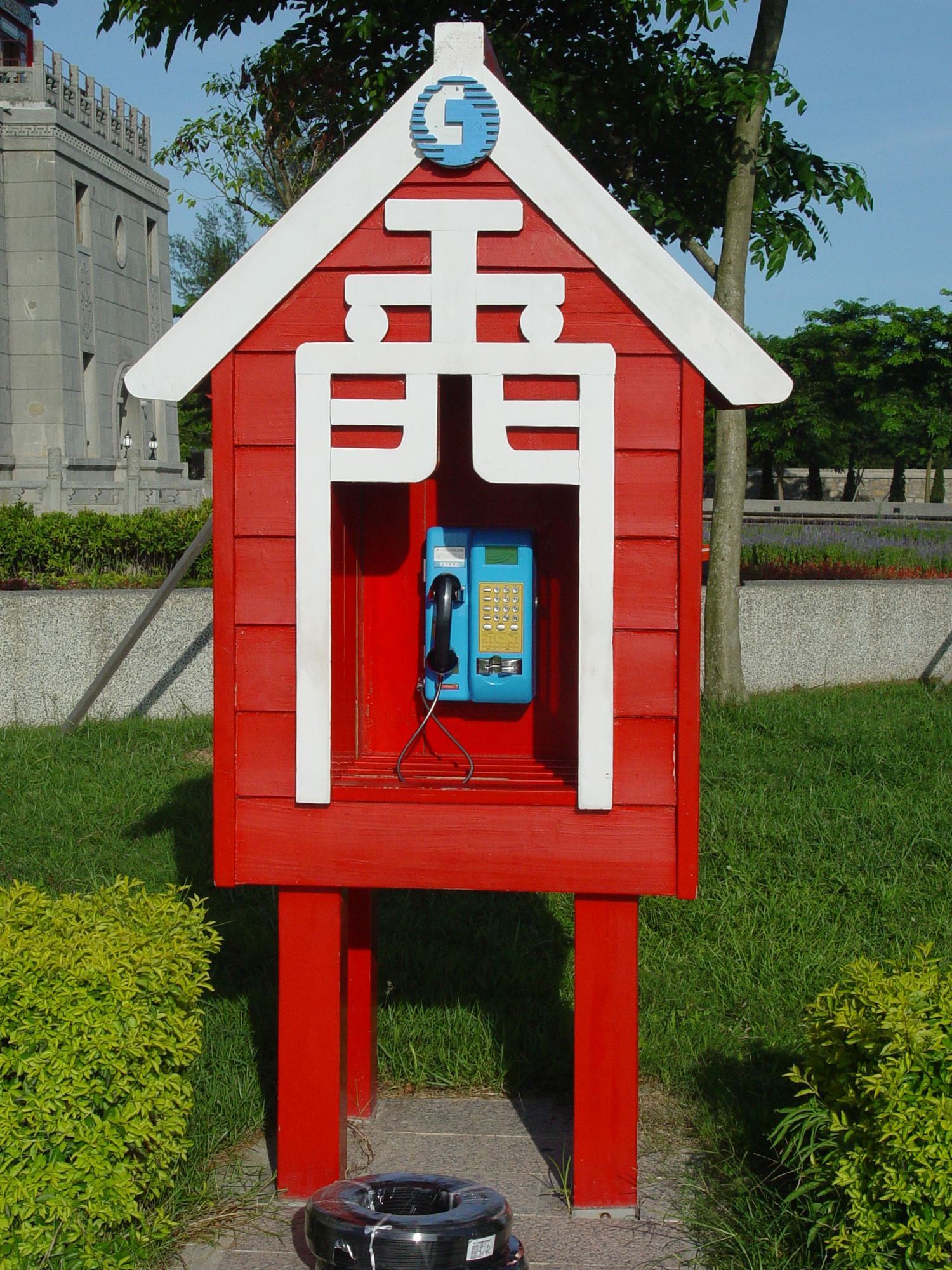 Kinmen's public telephone booth in front of Ju Guang Lou.